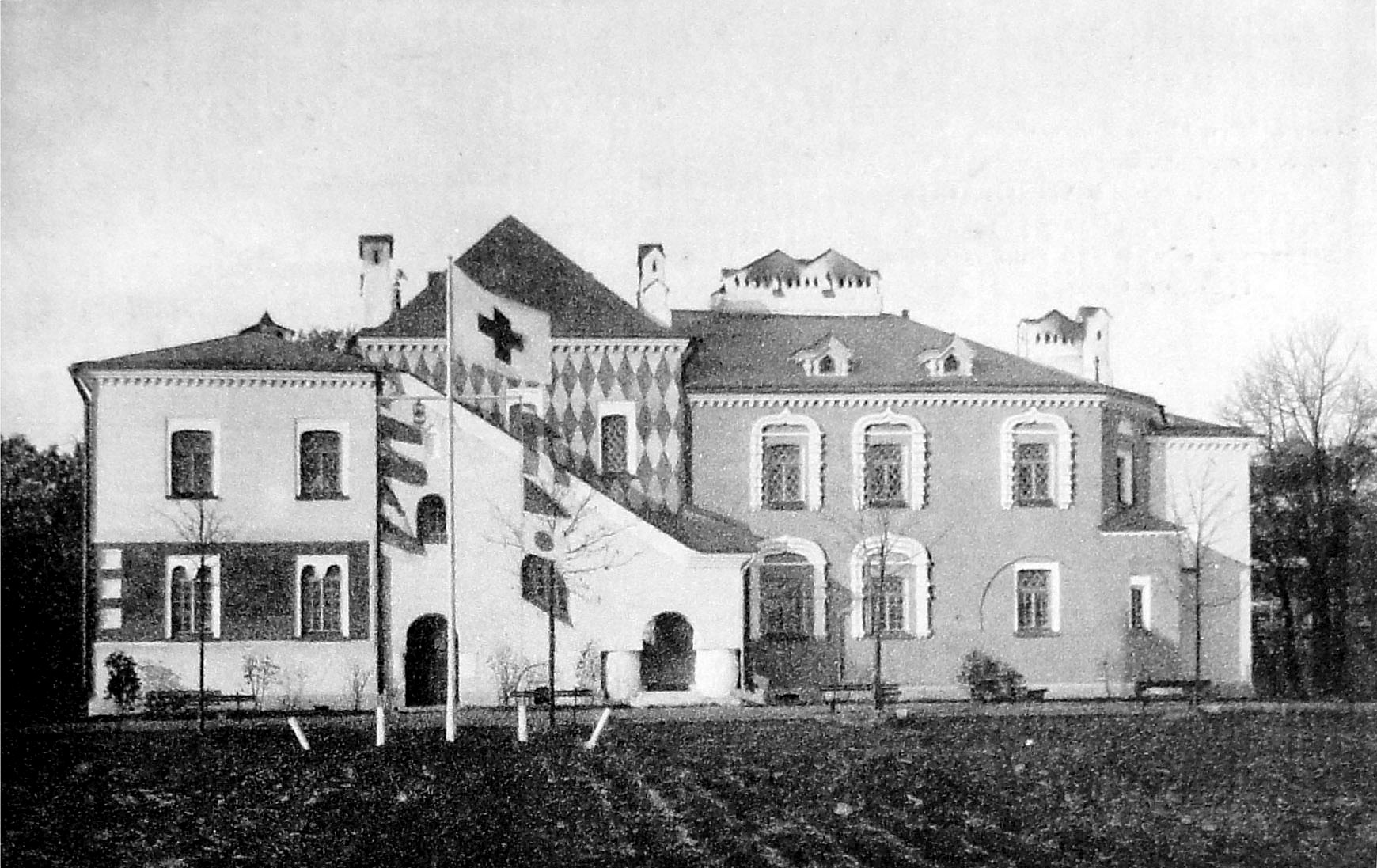 Tsarskoye Selo (Russia), House Prichetnikov (soldier hospital) in Feodorovsky town.